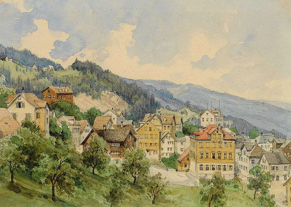 Wald (Kanton Appenzell Ausserrhoden), Pencil and watercolours, 19 × 26.5 cm